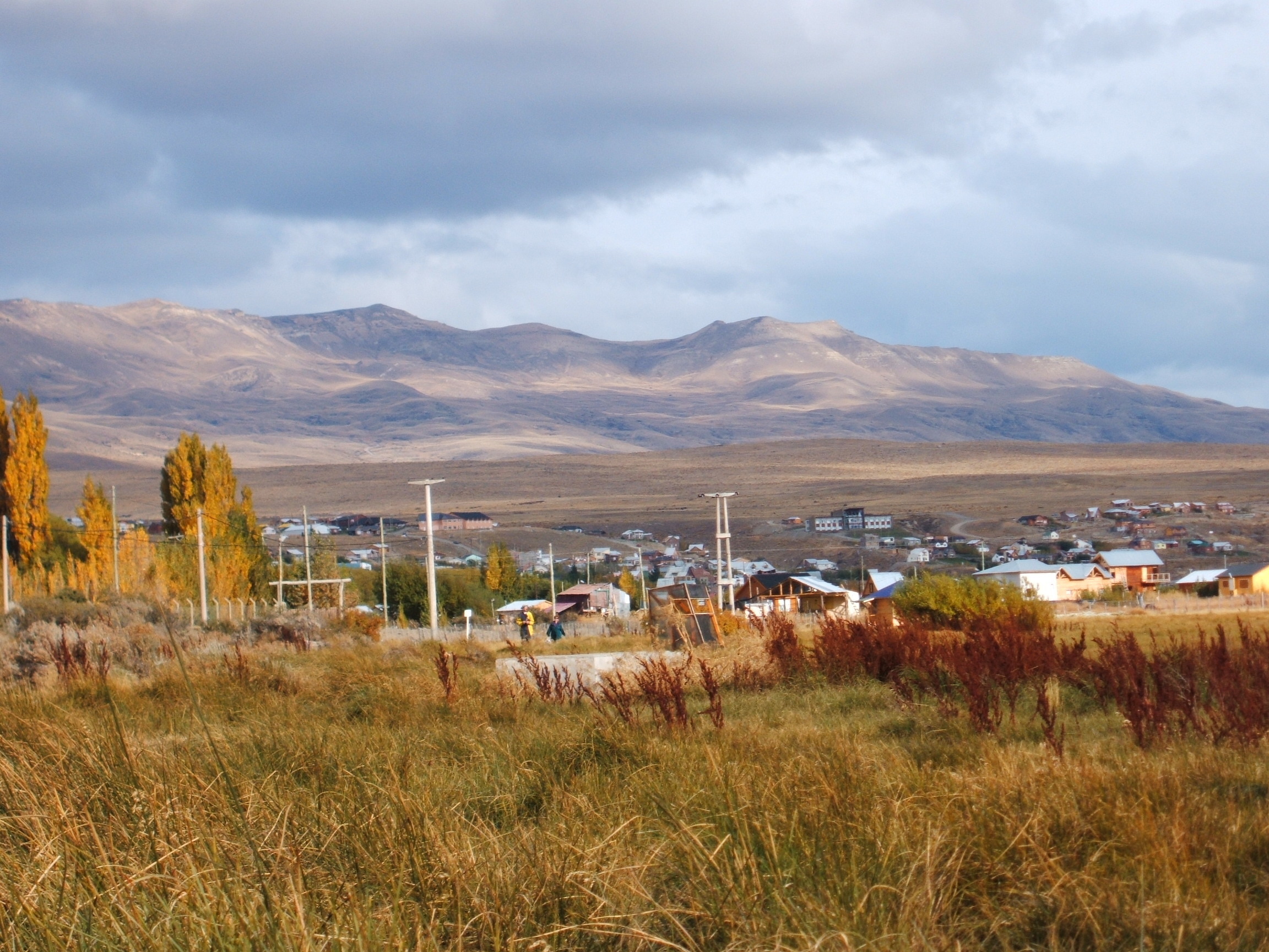 El Calafate